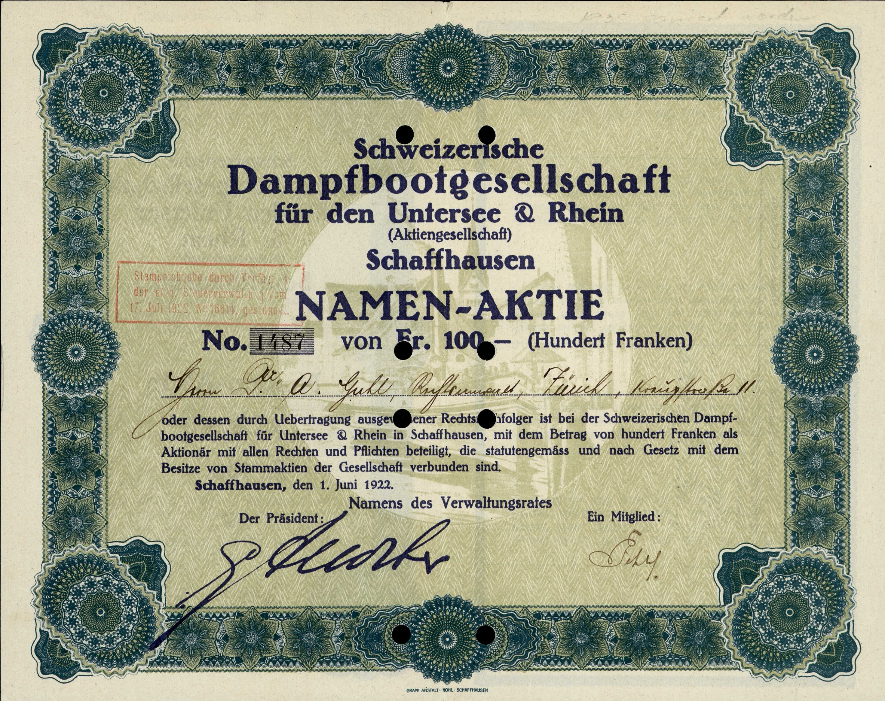 Share of the Schweizerische Dampfbootgesellschaft für den Untersee und Rhein, issued 1. June 1922